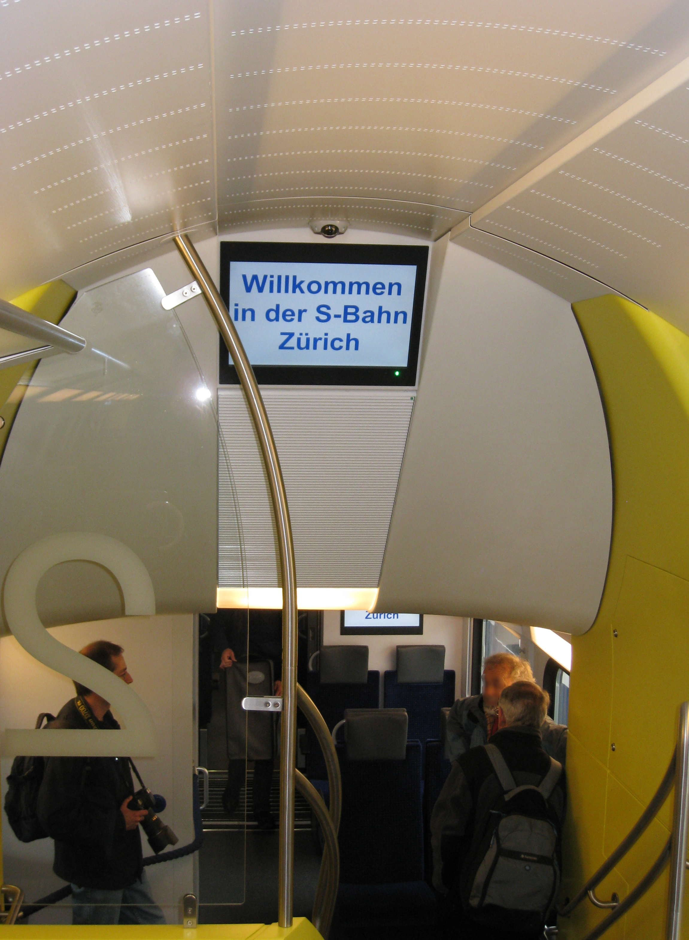 View down to middle deck of the SBB-CFF-FFS RABe 511 EMU (Stadler KISS)